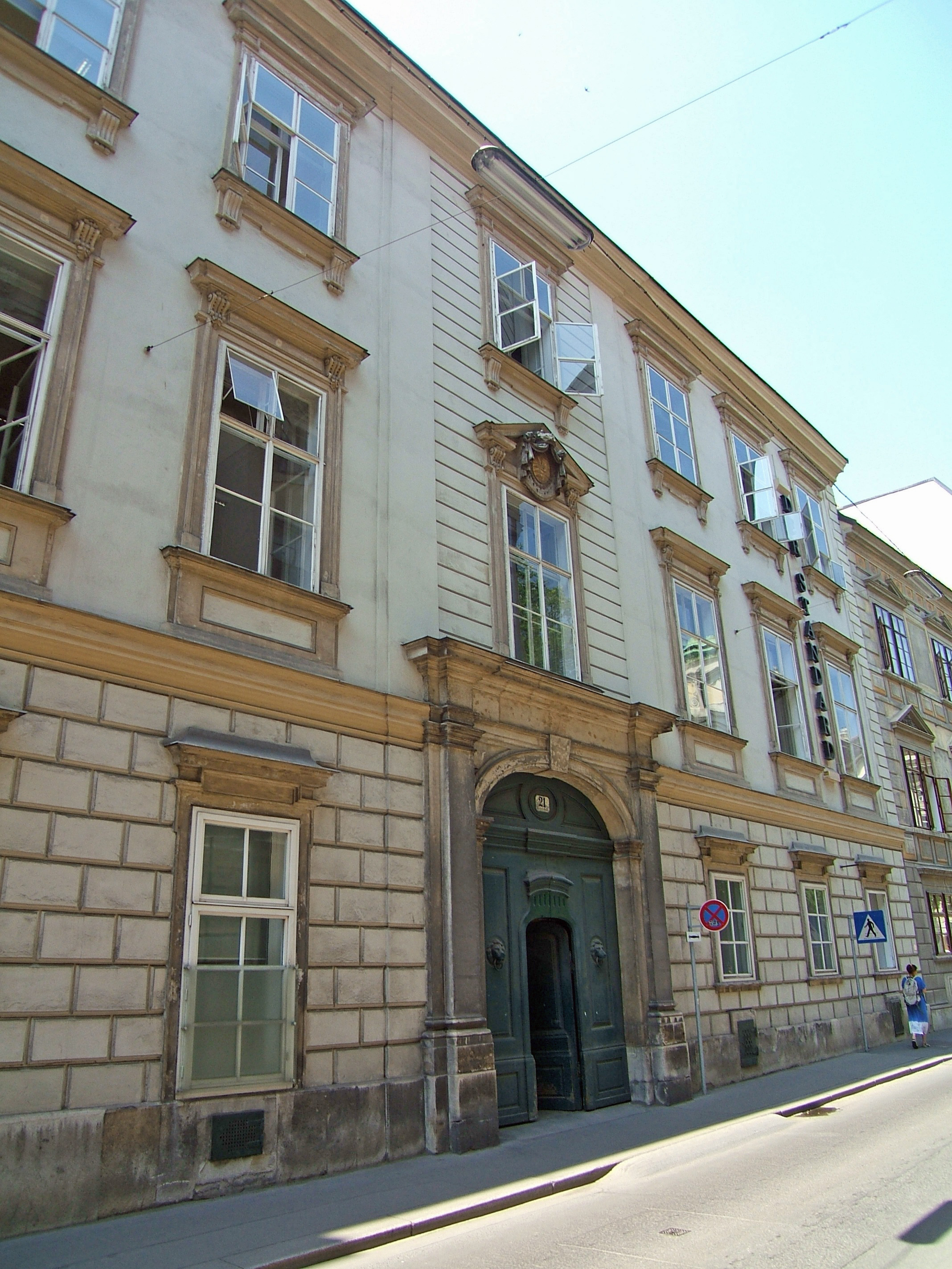 Palais Trauttmansdorff in Vienna 1st district Herrengasse 21